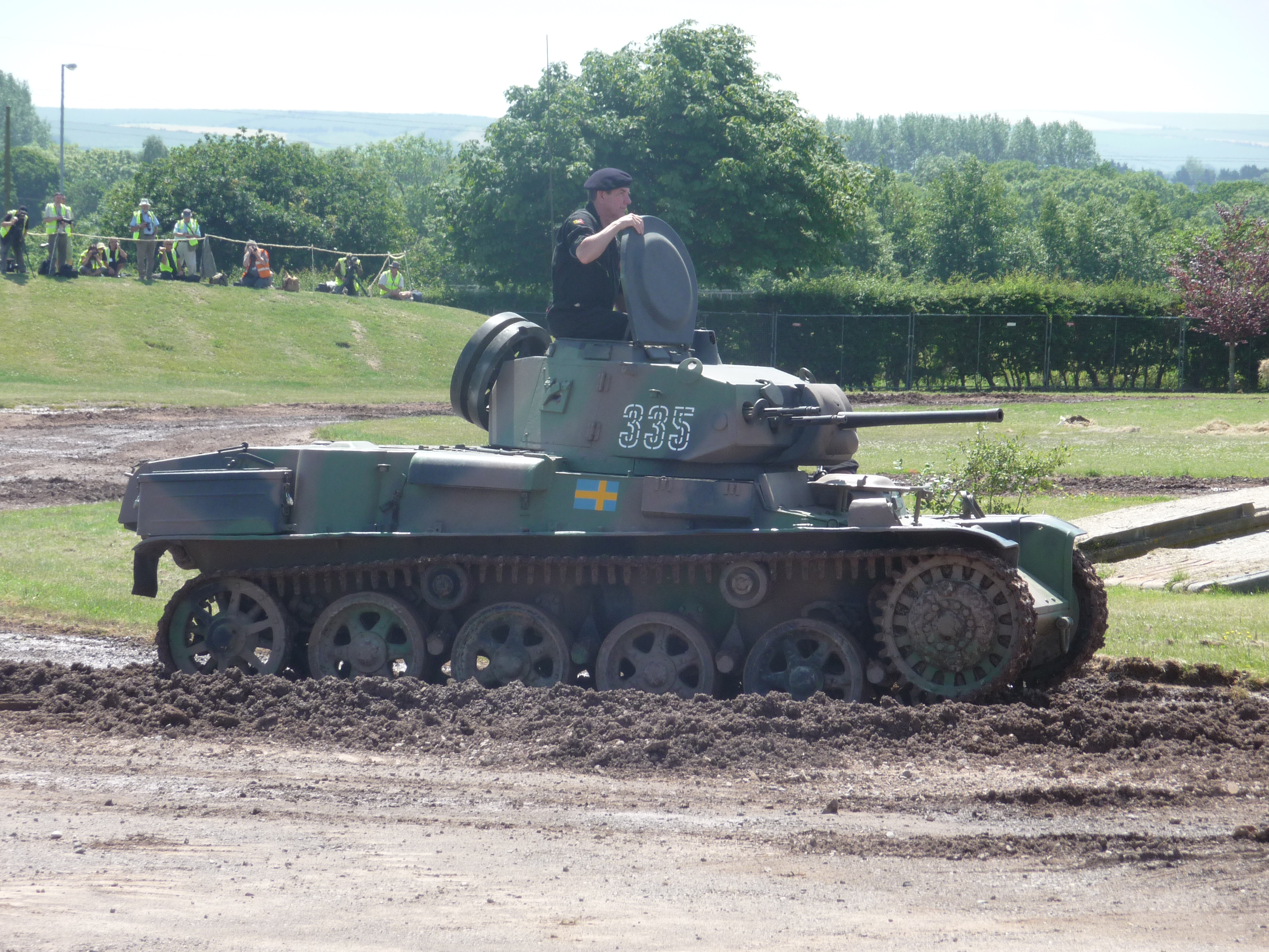 Stridsvagn M40L.